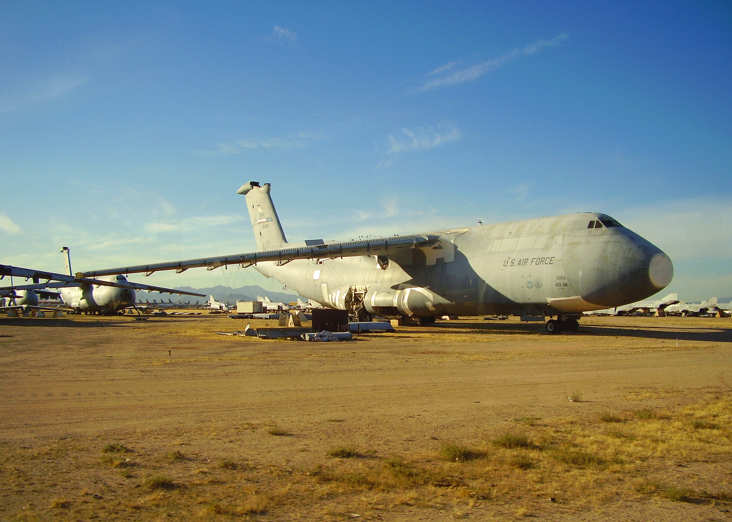 A retired U.S. Air Force Lockheed C-5A Galaxy transport aircraft (s/n 70-0458, c/n 500-0072) at the Aerospace Maintenance and Regeneration Center, Davis-Monthan Air Force Base in Tucson, Arizona (USA). The C-5A 70-0458 was retired on 11 November 2003 as CM0001, being the first C-5A to be retired. It was later scavenged for spare parts.